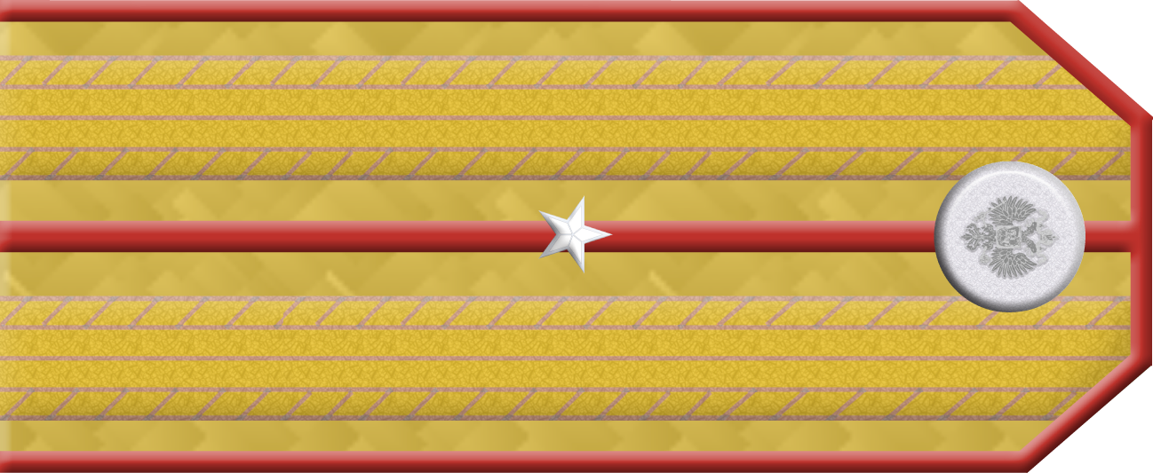 Rank insignia of the Imperial Russian Army, "Praporshchik" – shoulder strap. Particularity: Rank of the infantry and artillery in war times only.